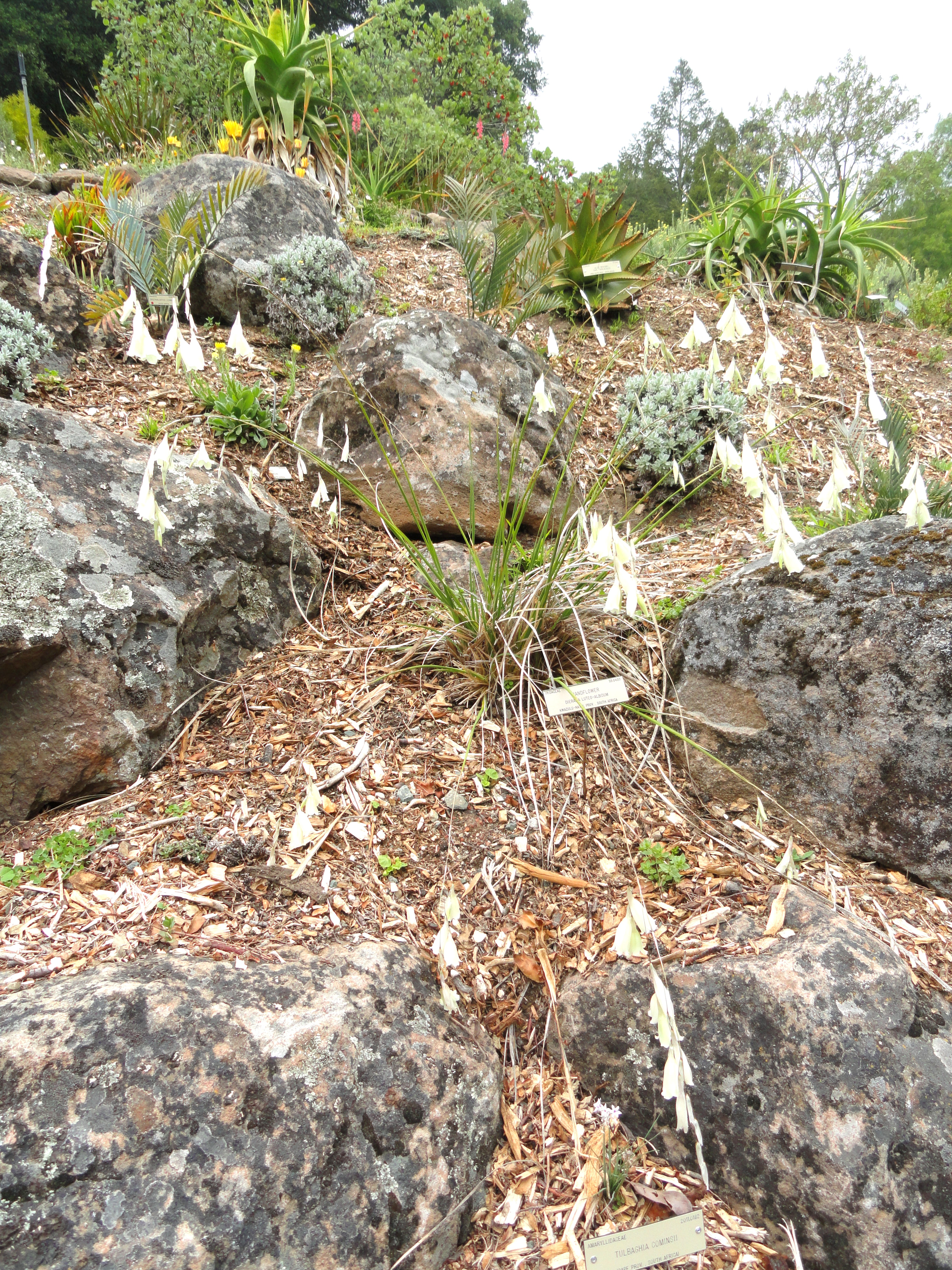 Dierama luteoalbidum specimen in the University of California Botanical Garden, Berkeley, California, USA.